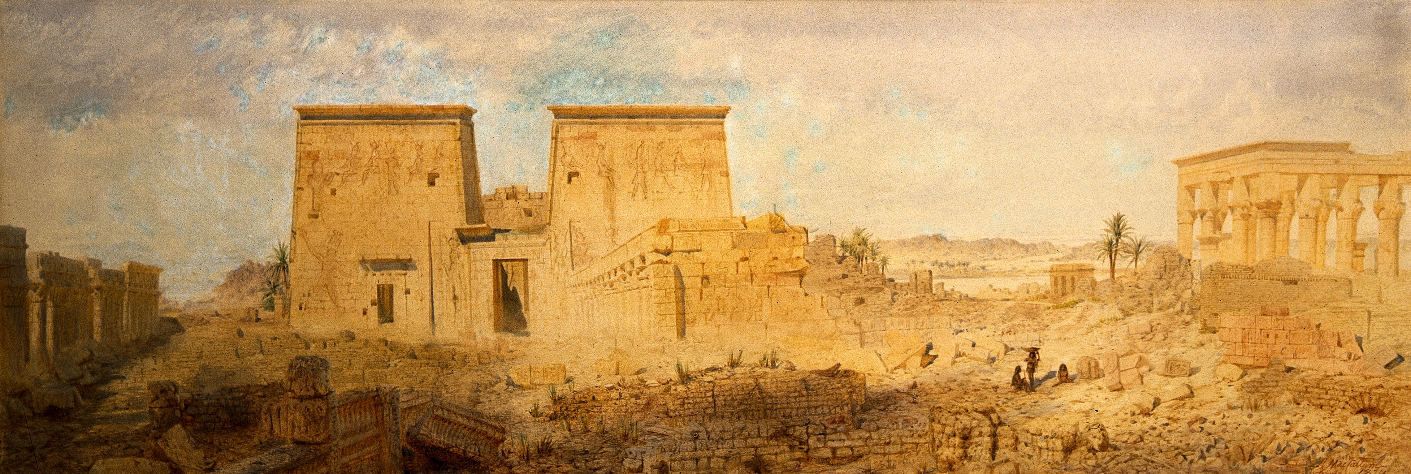 Temples at Philae on the Nile. Watercolour by A. MacCallum, 1874. Iconographic Collections Keywords: Andrew MacCallum